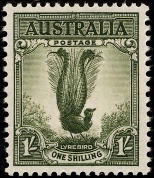 A postage stamp of Australia issued 1932